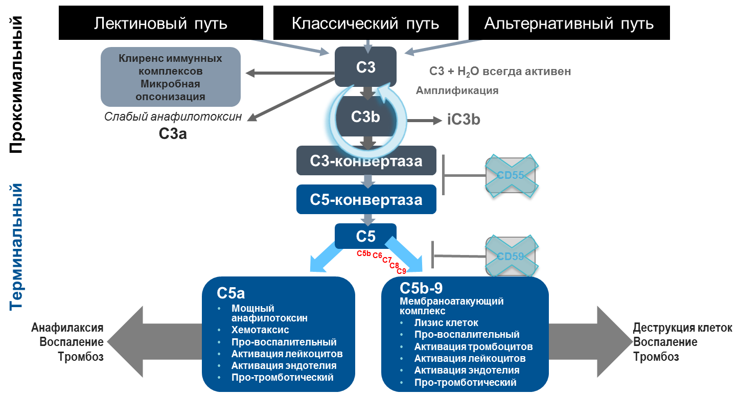 Complement cascade pathway